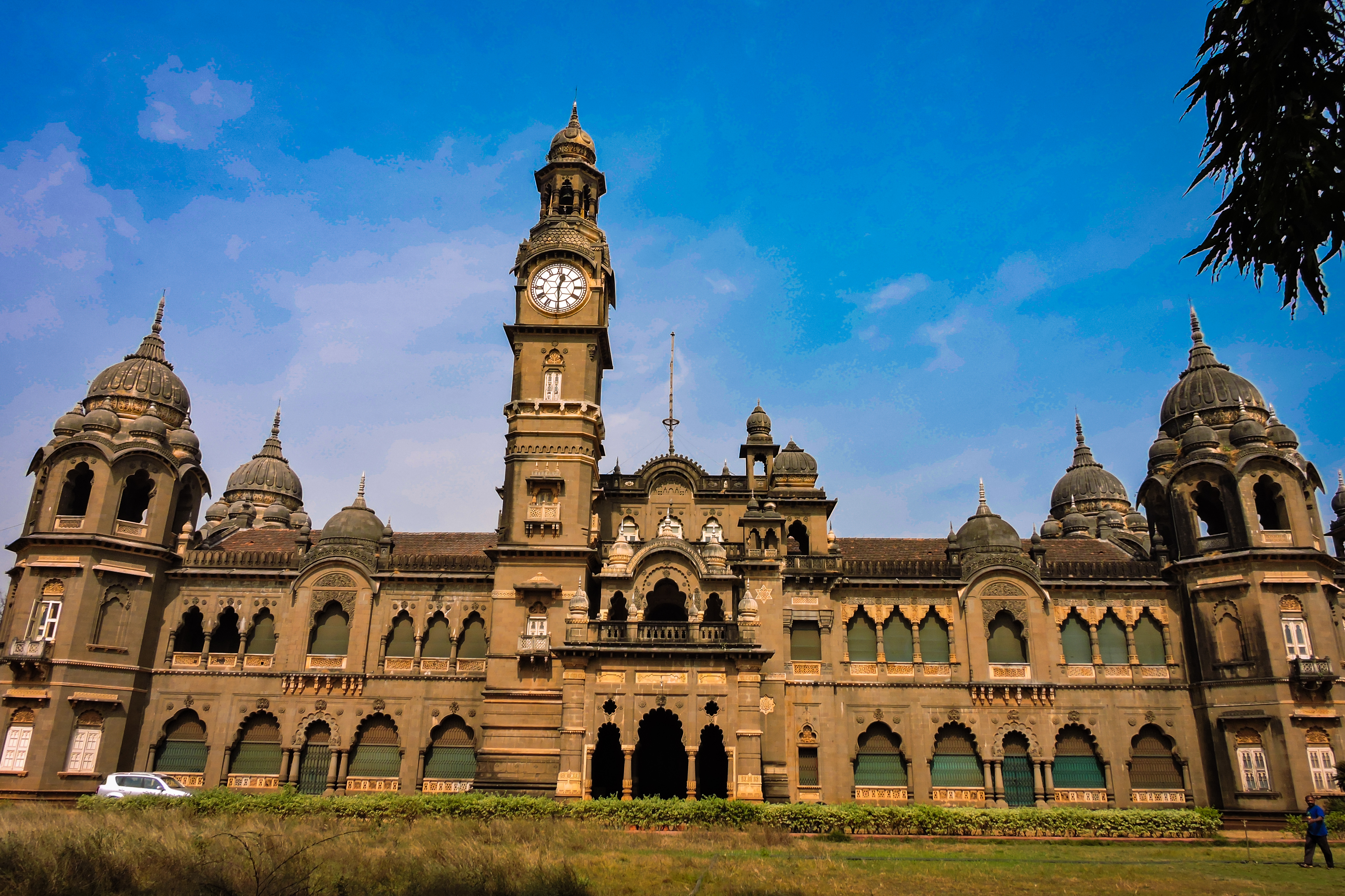 New Palace, Kolhapur is a palace situated in Kolhapur, in the Indian state of Maharastra.